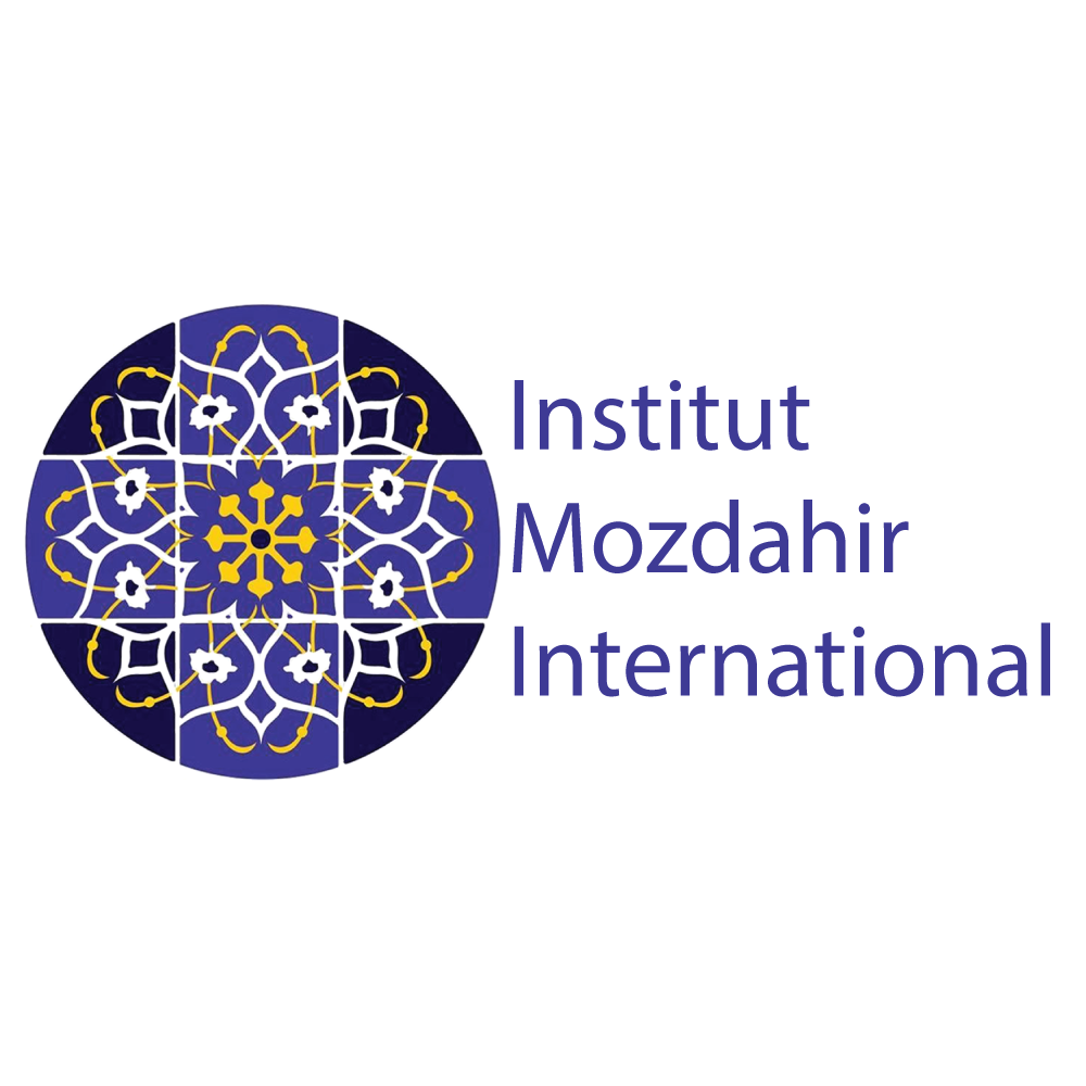 Institut Mozdahir International (IMI) is a non-profit non-governmental organization (NGO) founded in 2000 by Cherif Mohamed Aly Aidara and headquartered in Dakar. IMI benefits from a headquarters agreement and / or approval as an International NGO with several States of the sub-region and the world, including Senegal, Côte d'Ivoire, Mali, Guinea Bissau among others. IMI is present in 12 countries.